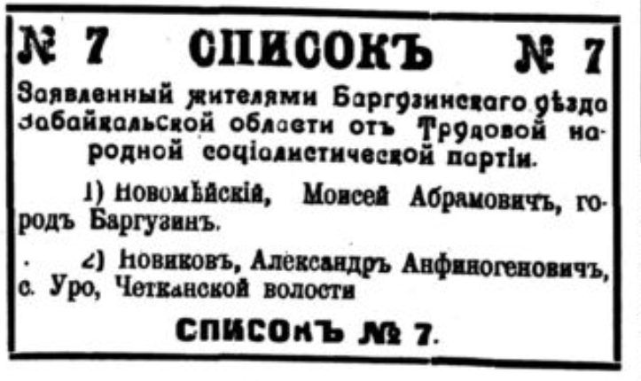 advert for list for the Russian Constituent Assembly election, 1917